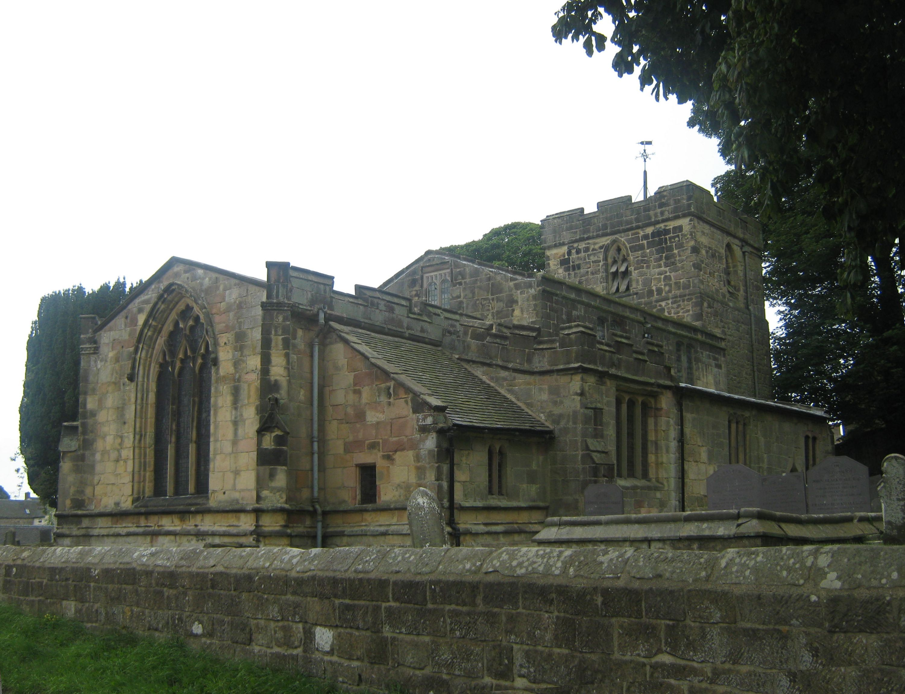 The Holy Trinty Church on Wirksworth Road in the village of Kirk Ireton in Derbyshire.